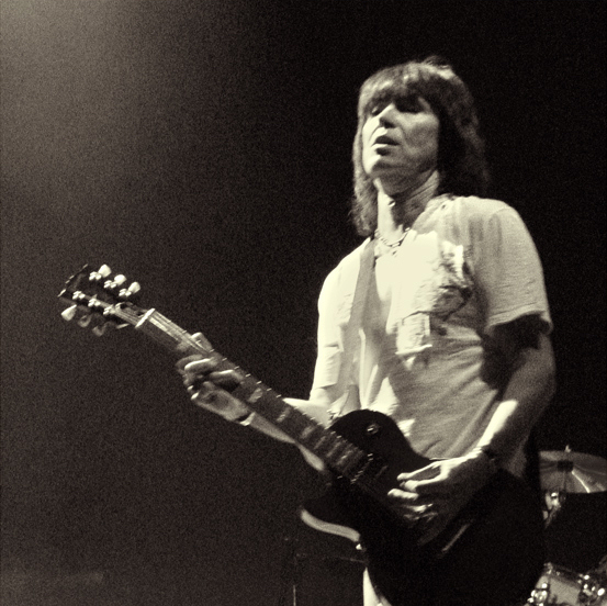 I took this one in the summer. It's a bit blurred and grainy, but I think it has character.